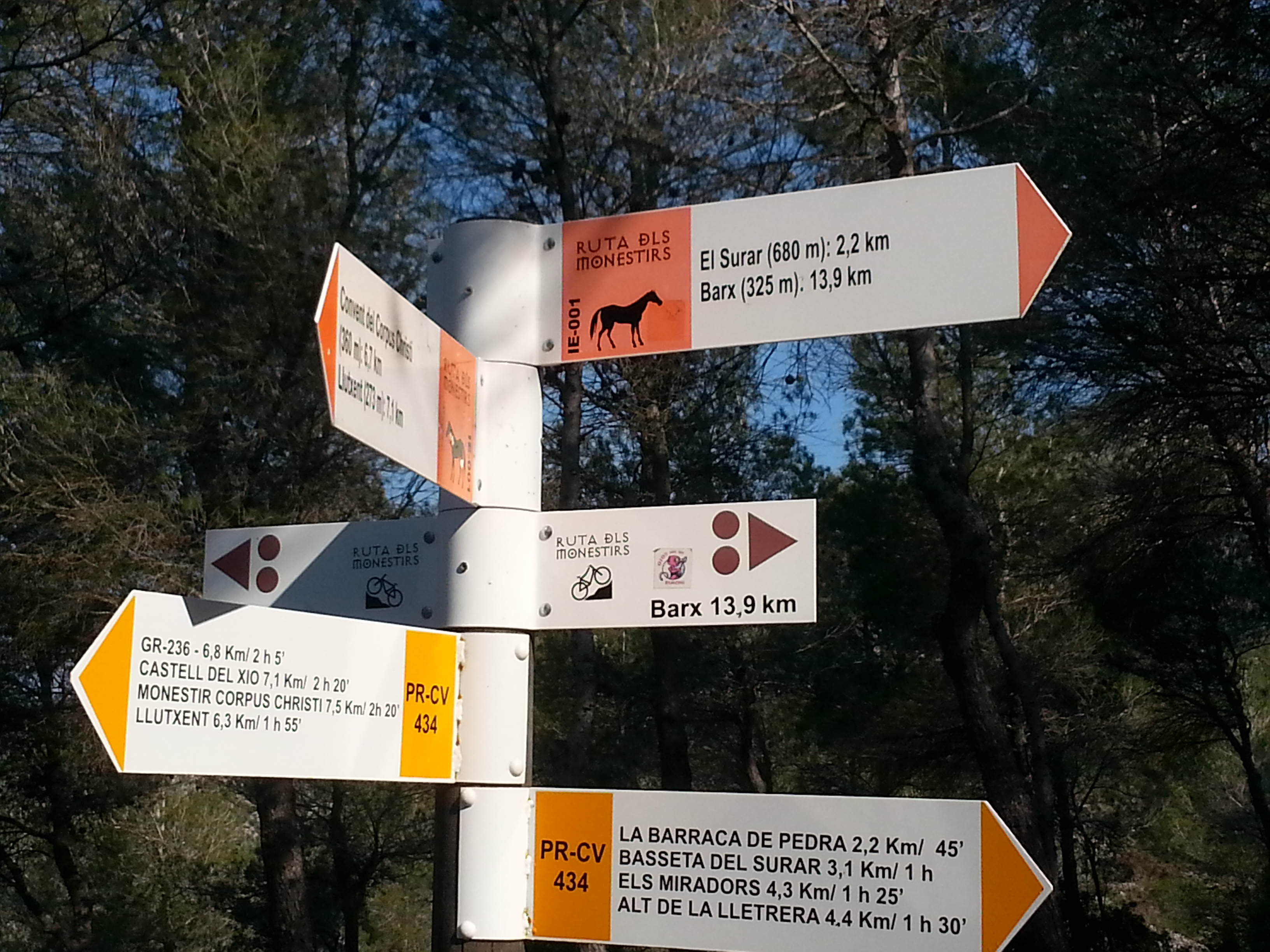 Route marker 17, El Surar, Pinet, Valencia